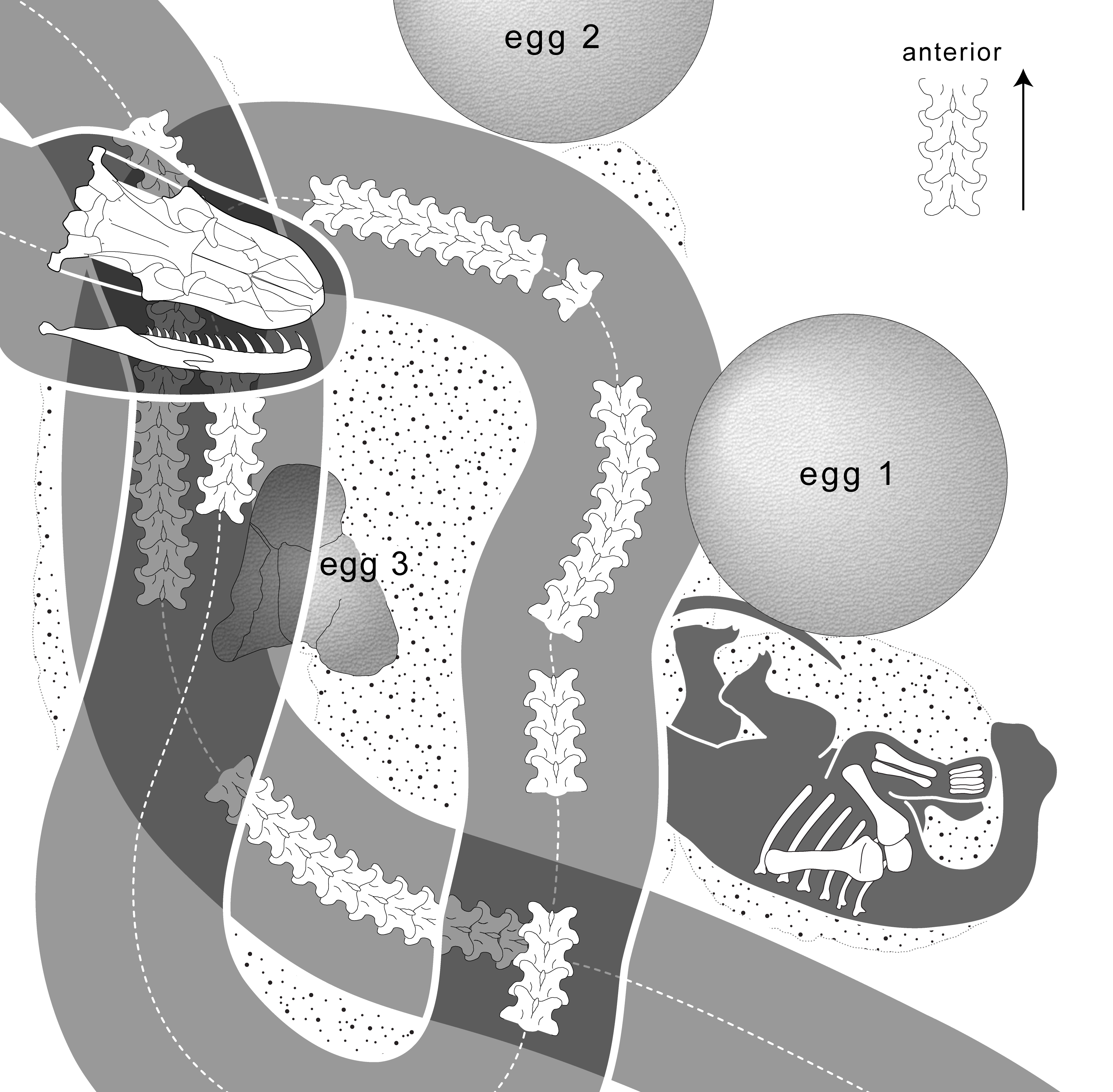 Fossil snake preserved within a sauropod dinosaur nesting ground.